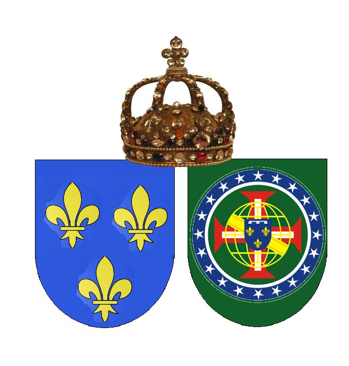 Arms of the Count and Countess of Paris